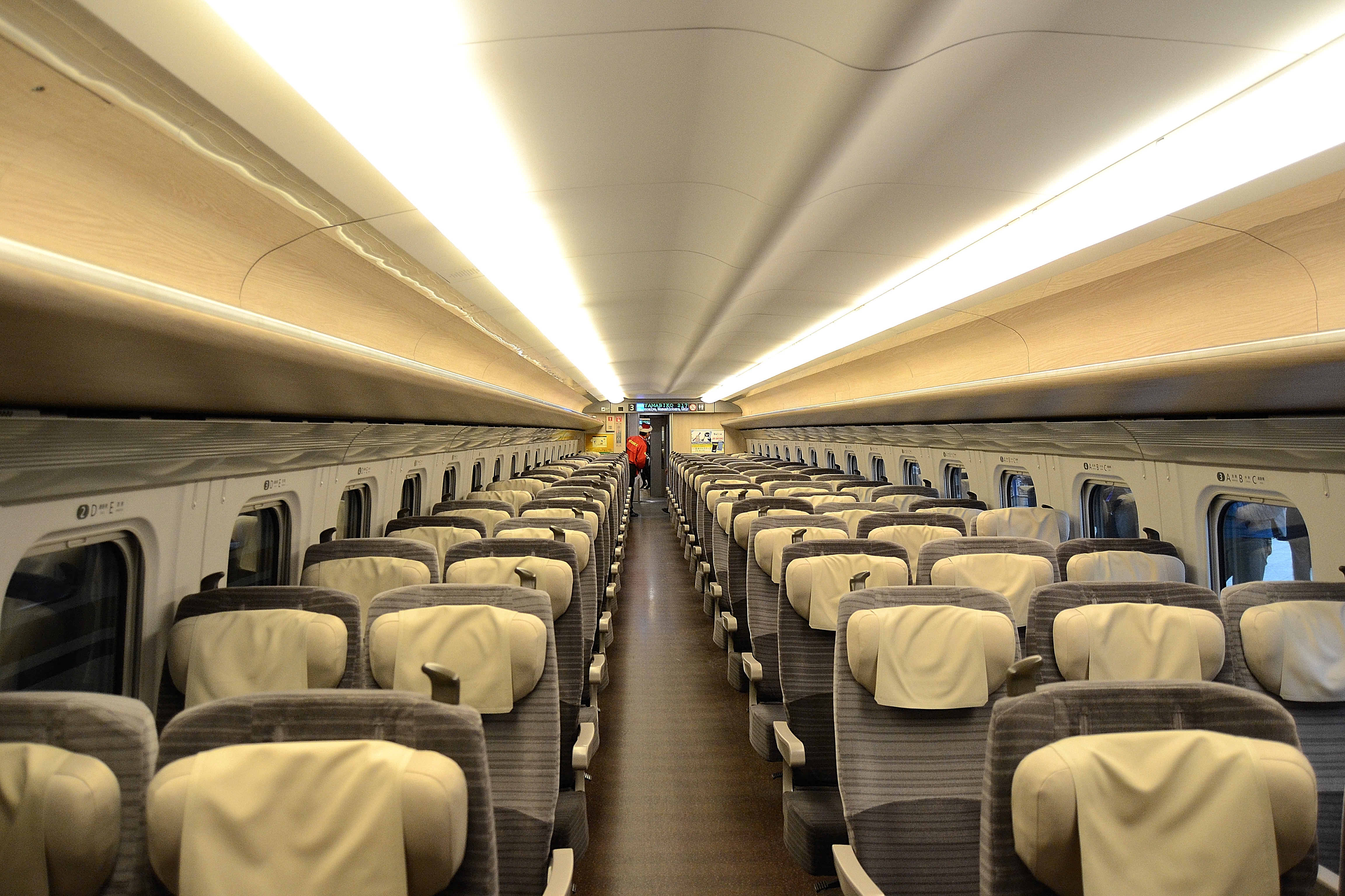 Interior of a JR East E5 series shinkansen ordinary-class car (car 3)